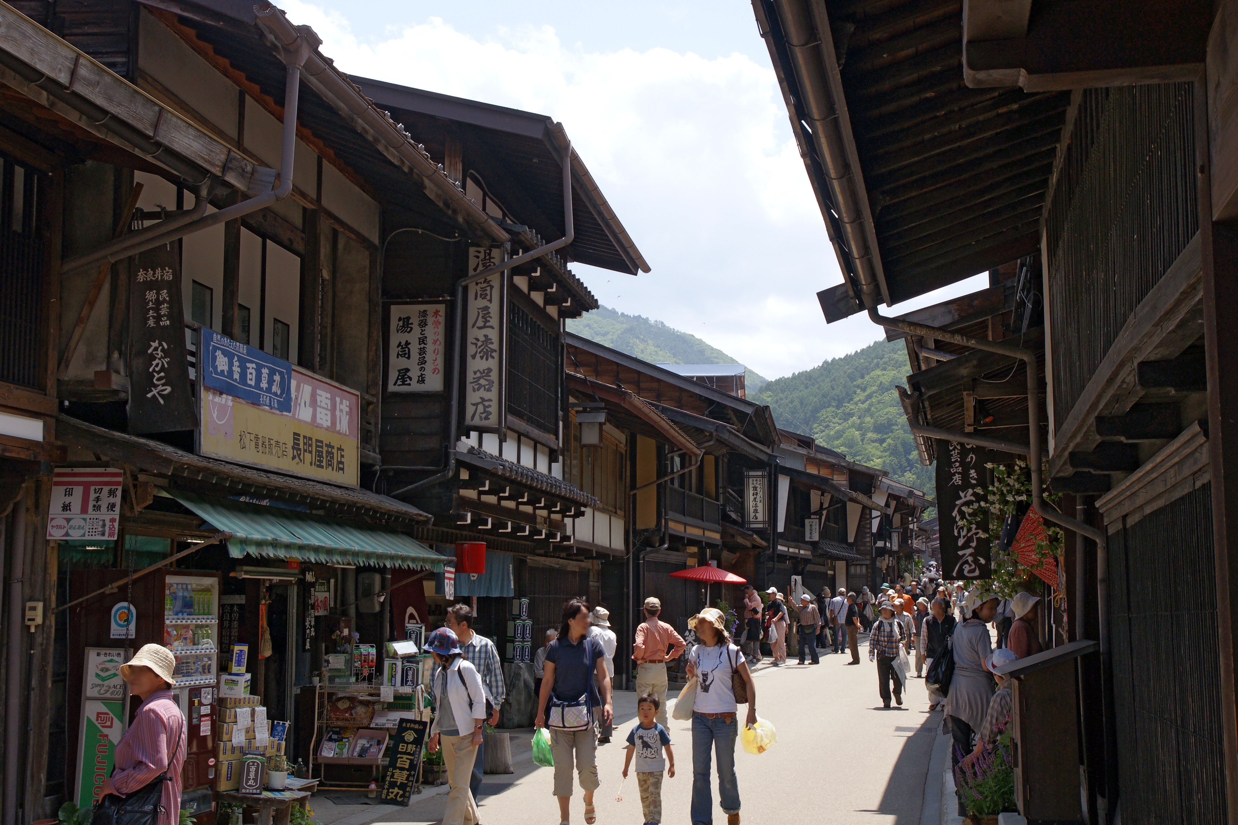 Narai-juku, Shiojiri, Nagano prefecture, Japan